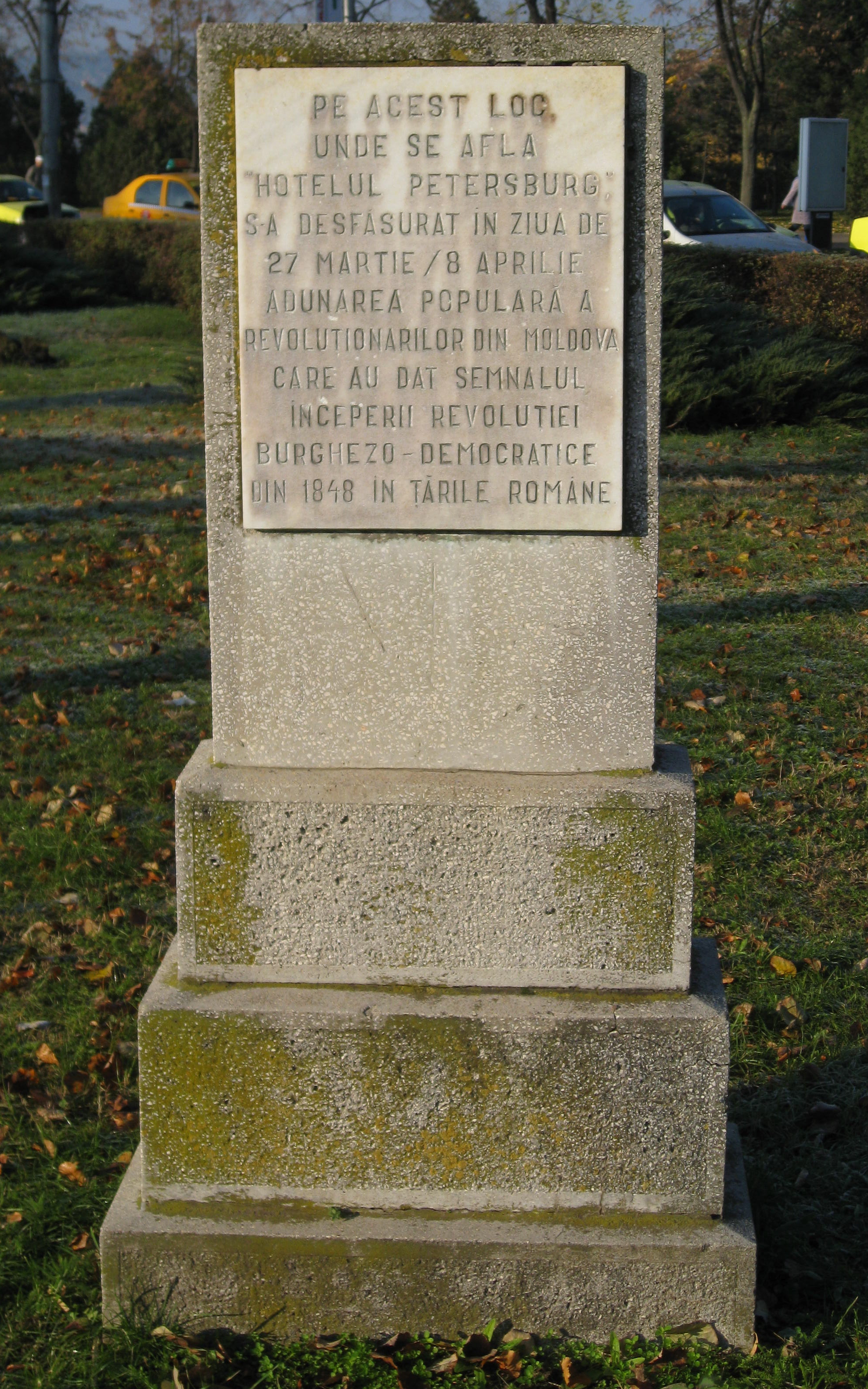 Communist-era plaque in Iaşi, Romania, marking the site of the Petersburg Hotel, where the proclamation of the 1848 revolution was drawn up on 27 March/8 April that year. Translated into English, the inscription reads: "On this site, where the Petersburg Hotel stood, the popular assembly of the Moldavian revolutionaries took place on 27 March/8 April. This signalled the start of the 1848 bourgeois-democratic revolution in the Romanian principalities."